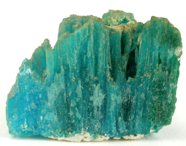 Kröhnkite, Natrochalcite Locality: Chuquicamata Mine, Chuquicamata District, Calama, El Loa Province, Antofagasta Region, Chile (Locality at ) Size: 2.8 x 2.1 x 1.8 cm. A rich, old-time and showy specimen of the rare sulfate, krohnkite, from the Type Locality, the Chuquicamata Mine of Chile. The piece is beautifully complimented by the very rare emerald-green sulfate, natrochalcite. Chuquicamata is also the Type Locality for natrochalcite. Without question, this specimen exhibits the most intense teal blue color I have ever seen in a natural mineral specimen and has great translucence! And the variation in blue color, in itself, is very noteworthy. The veins exhibit what is classic for the species, lamellar growth of crystals in parallel bundles. Ex. John White Collection of Seattle and accompanied by with an old, water-stained label.